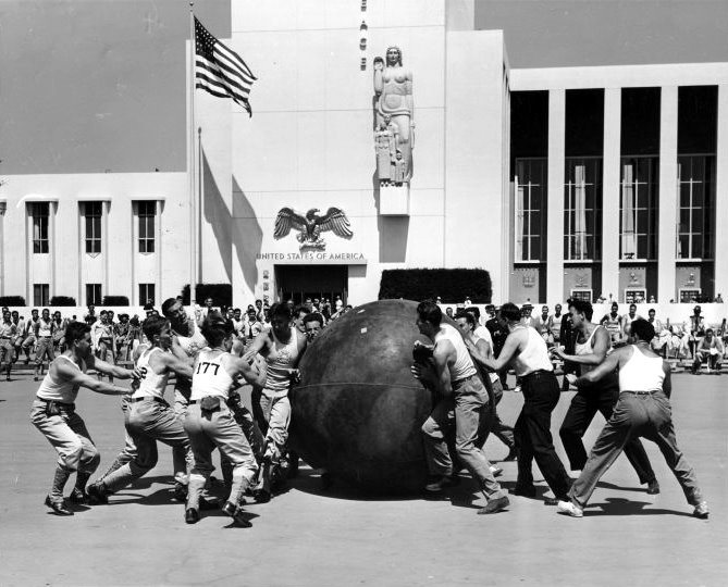 New York City - Police Dept. - Pushball game between Police and Fire Departments